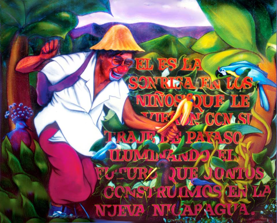 Ben Linder was an American citizen murdered by the Contras in 1987 while working in Nicaragua as a water-purification engineer. In his free time Linder often performed as a clown to entertain children, so he is here depicted with a clown nose. This mural was painted by American artist Mike Alewitz in Esteli, Nicaragua in 1989. 10'x15'